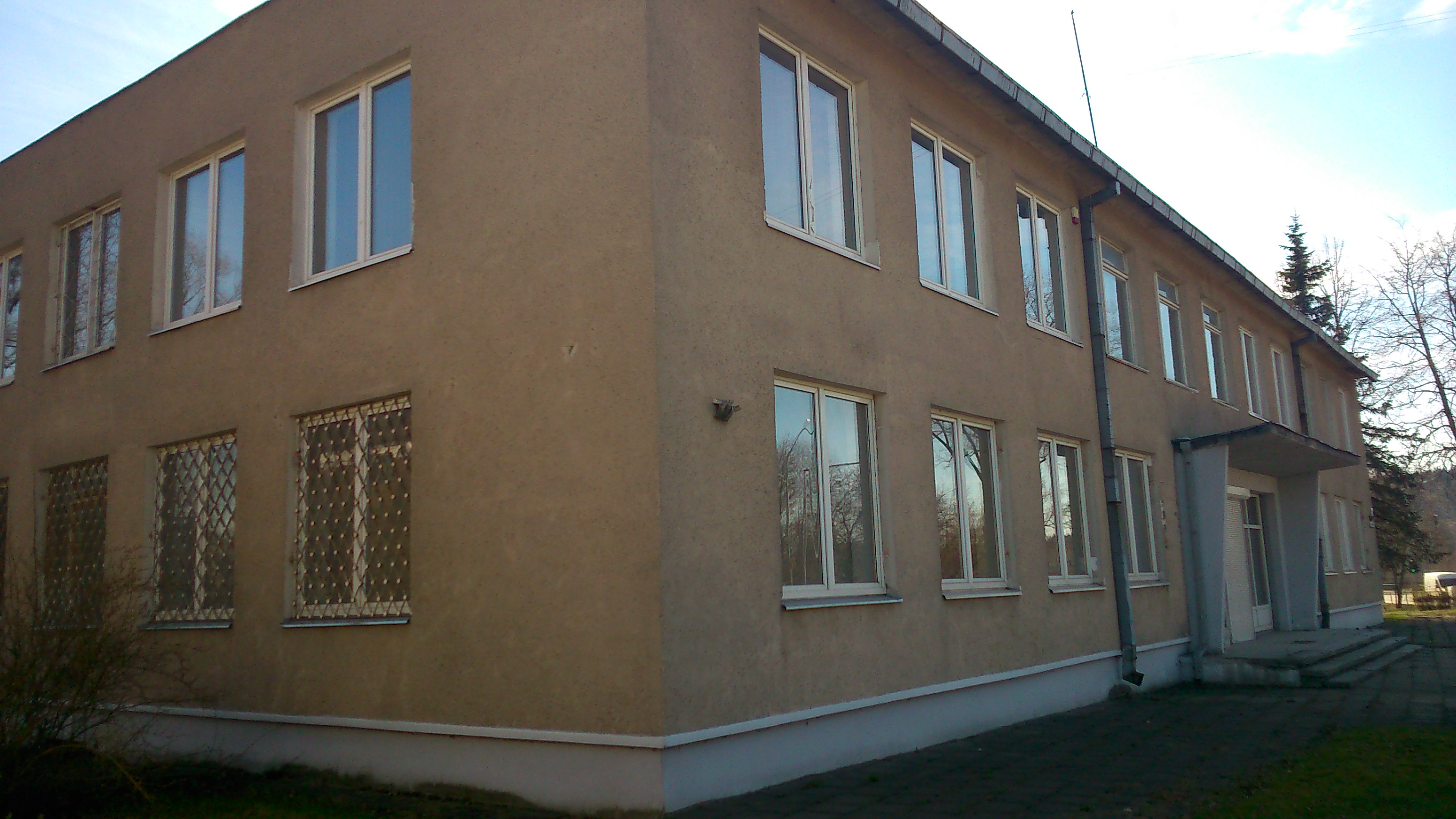 Naujoji Vilnia Court